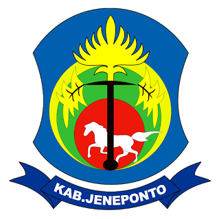 Seal of Jeneponto regency